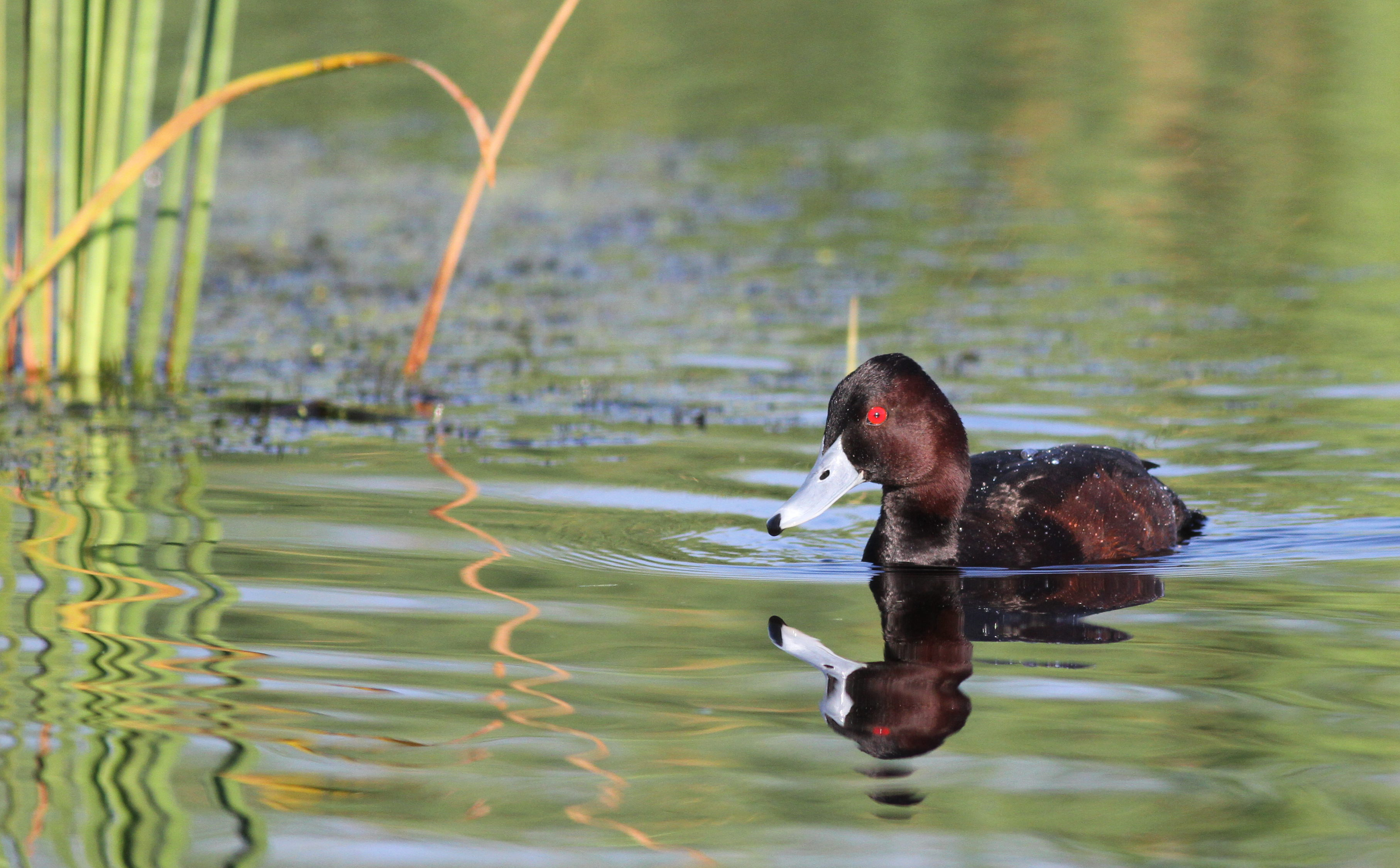 Southern Pochard, Netta erythrophthalma, at Marievale Nature Reserve, Gauteng, South Africa